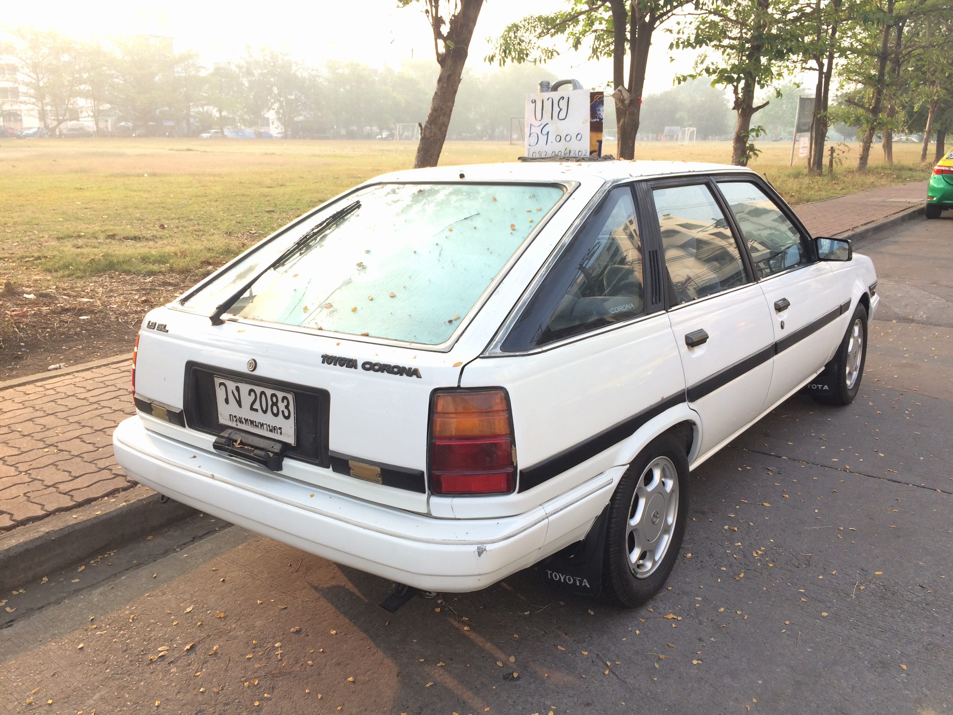 1983-1984 Toyota Corona (AT151) 1.8 GL Liftback (10-02-2018) in Bangkhen Bangkok Thailand.